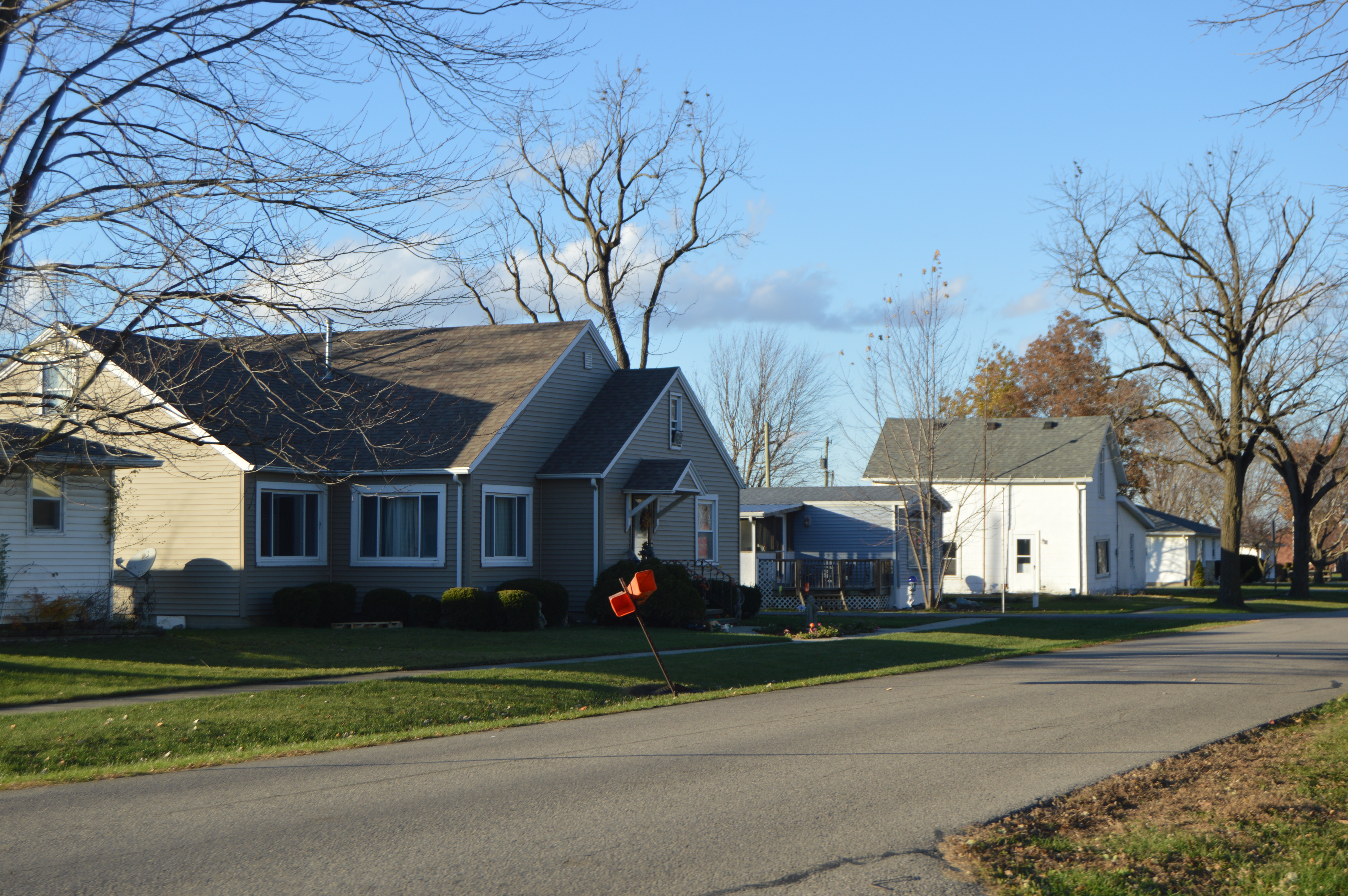 Houses on the western side of McKinley Street north of the Maple Street intersection in Haviland, Ohio, United States.